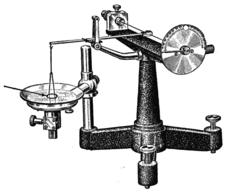 This is a drawing of a du Noüy ring tensiometer, used for measuring the surface tension of liquids. I removed most of the arrows pointing out specific parts, but left the one pointing to the ring itself.